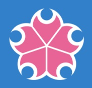 Motoyama Kochi chapter